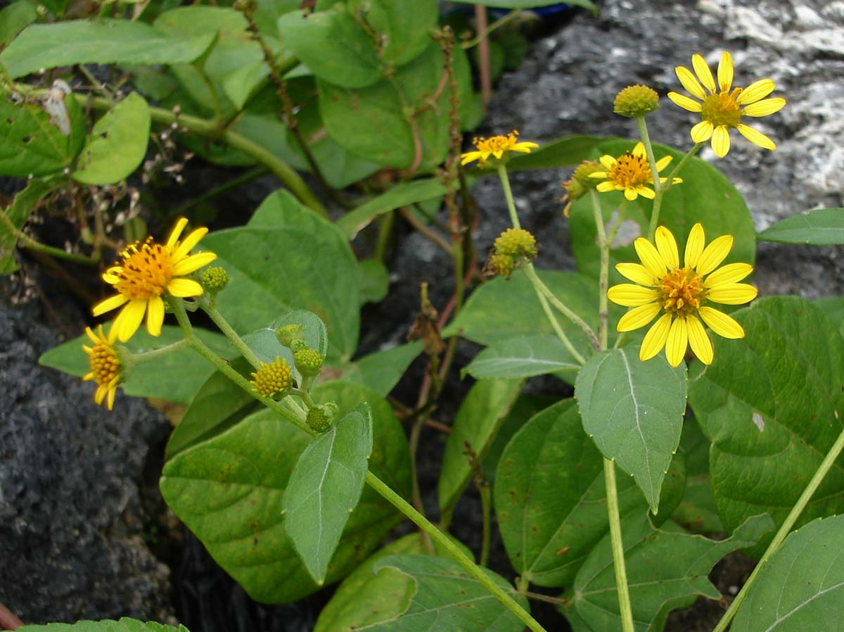 Wollastonia biflora = Melanthera biflora (L.) Wild, (ate) along a Tongan beach